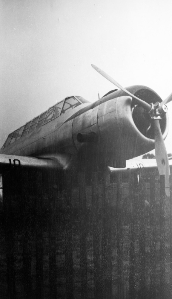 PictionID:40971600 - Title:Vultee YA-19 - Catalog:15_002856 - Filename:15_002856.tif - PictionID:40971474 - Title:Lancer Republic YP-43 - Catalog:15_002846 - Filename:15_002846.tif - Image from the Charles Daniels Photo Collection album "US Army Aircraft."----PLEASE TAG this image with any information you know about it, so that we can permanently store this data with the original image file in our Digital Asset Management System.----SOURCE INSTITUTION: San Diego Air and Space Museum Archive